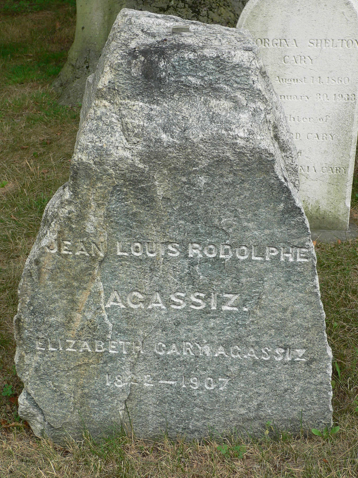 Grave of Louis Agassiz, front view